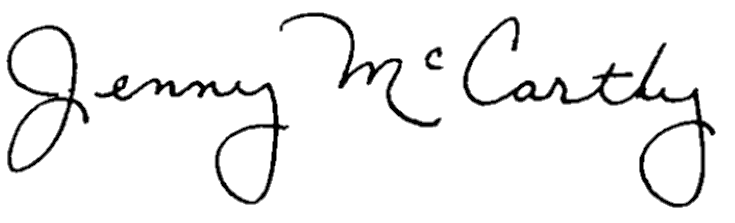 Signature of Miss October 1993 Playmate (and 1994 Playmate of the Year) Jenny McCarthy